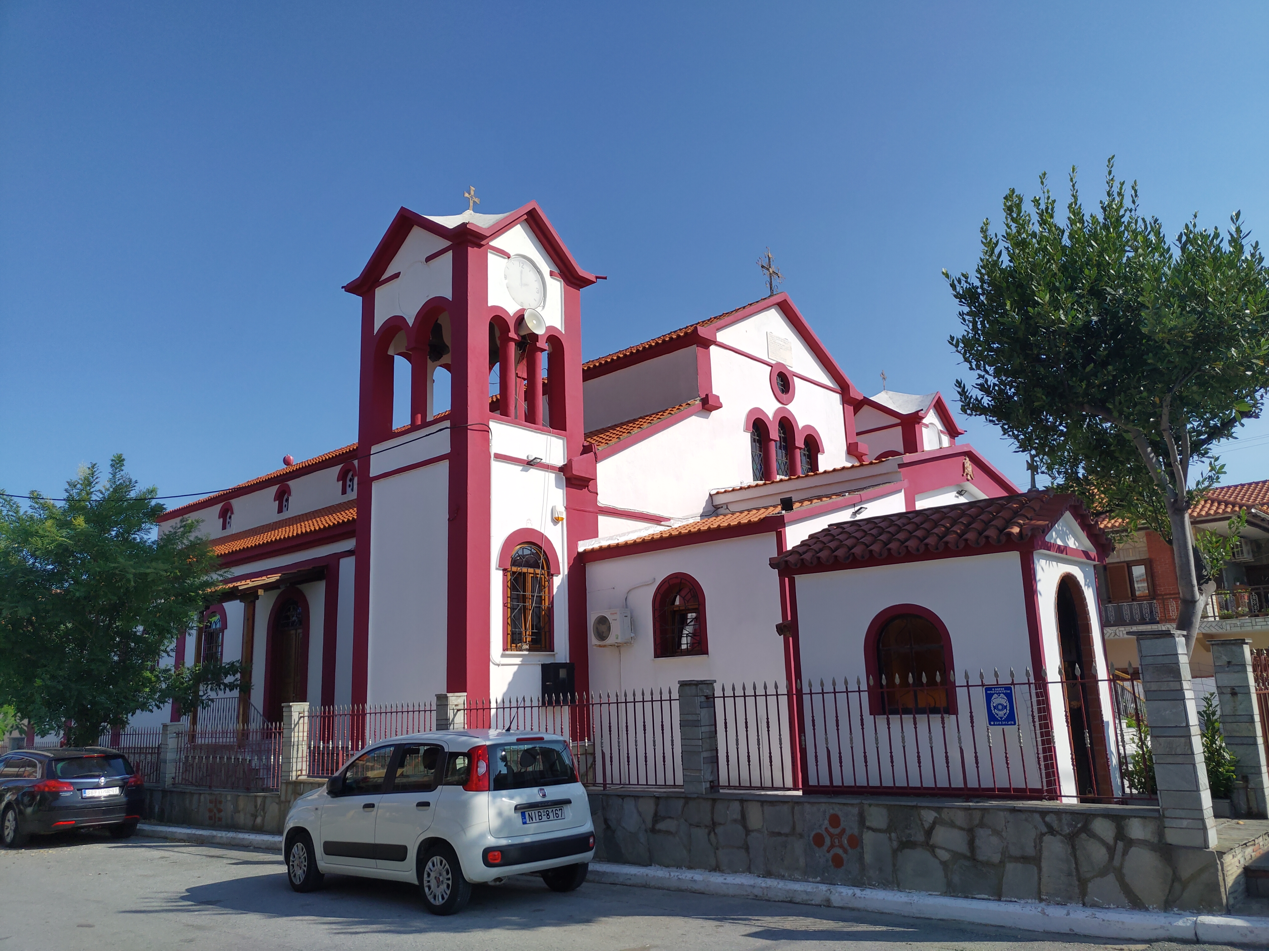 Nea Roda, Chalkidiki, Greece.